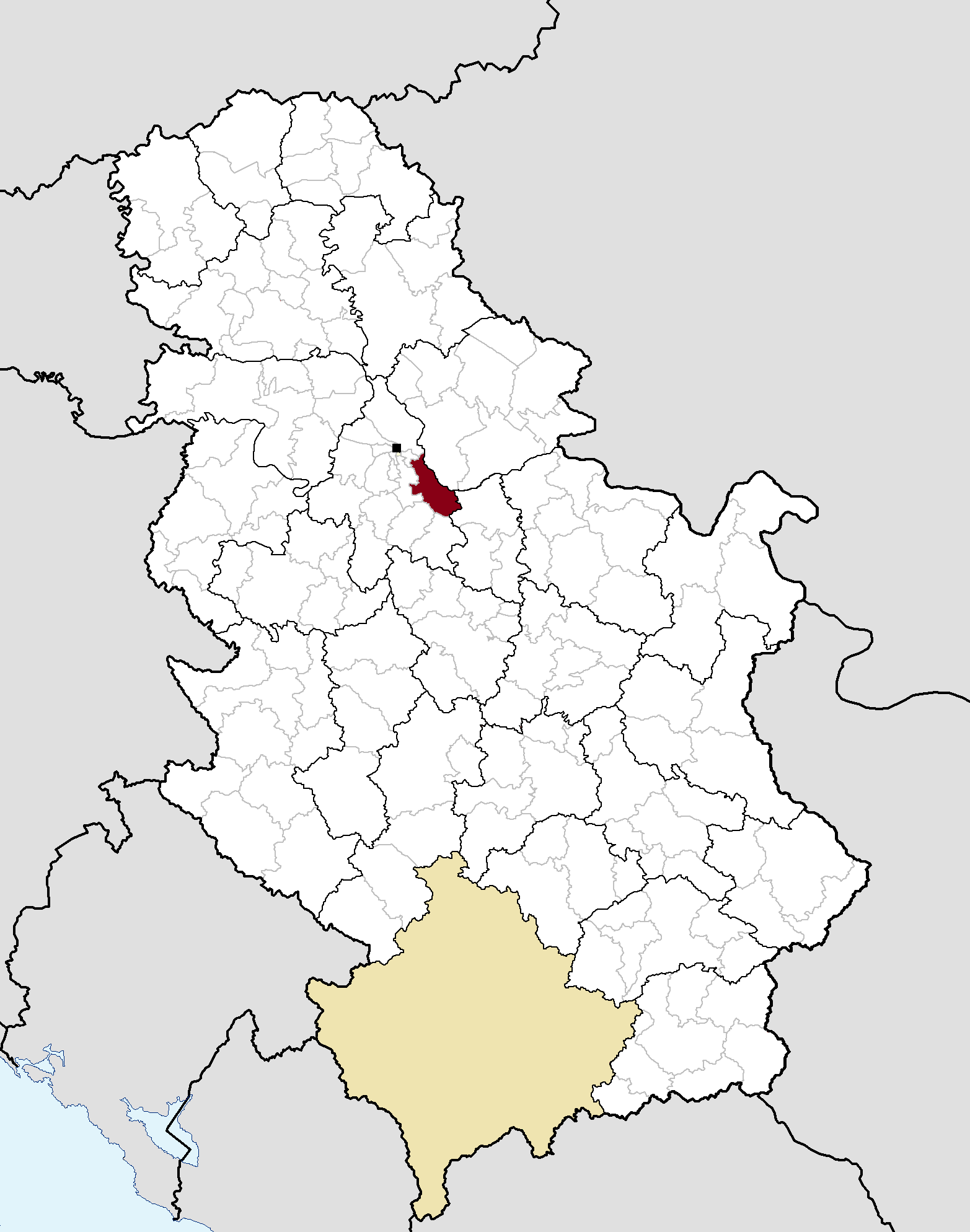 Municipal location in Serbia